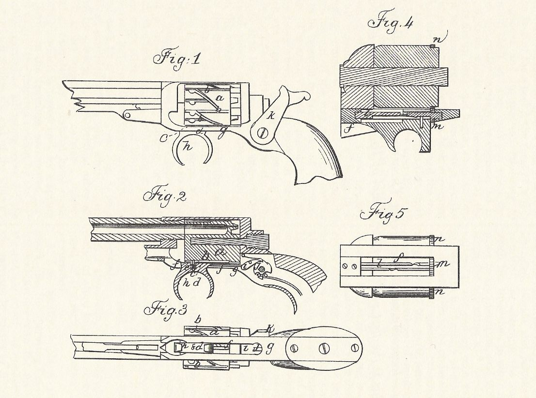 E.K.Root's Revolver Pat. 13'9999 of 1855